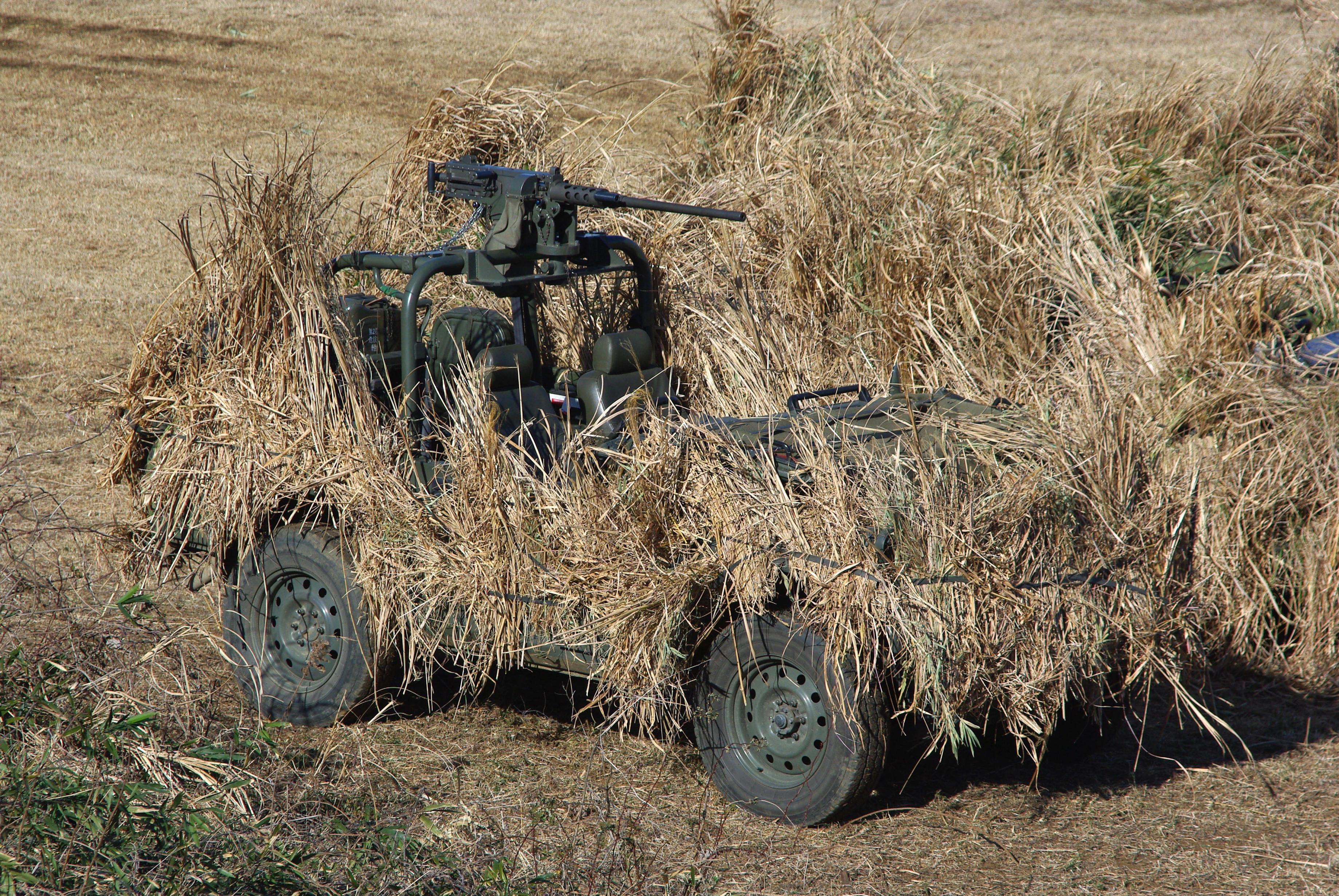 JGSDF Type73_Kogata_Truck,1st Airborne Brigade.Taken by Los688,in Narashino,Japan,at 10-Jan-2010,JGSDF 1st Airborne Brigade 2010 first drop manuver.PD-self 第一空挺団車両 2010年01月10日。習志野演習場で撮影。新73式小型トラック（カムフラージュ）。